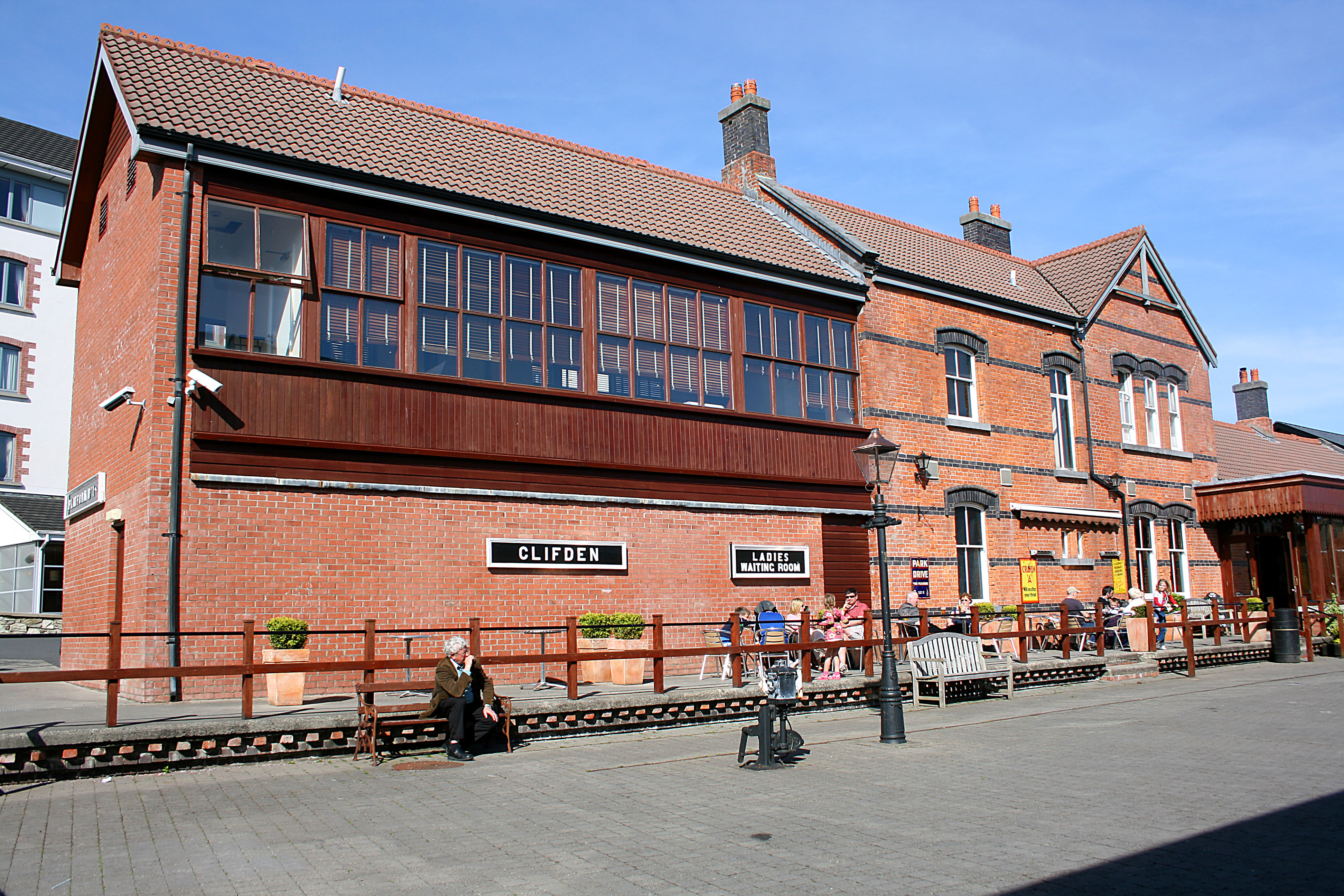 The old railway station house in Clifden, County Galway.